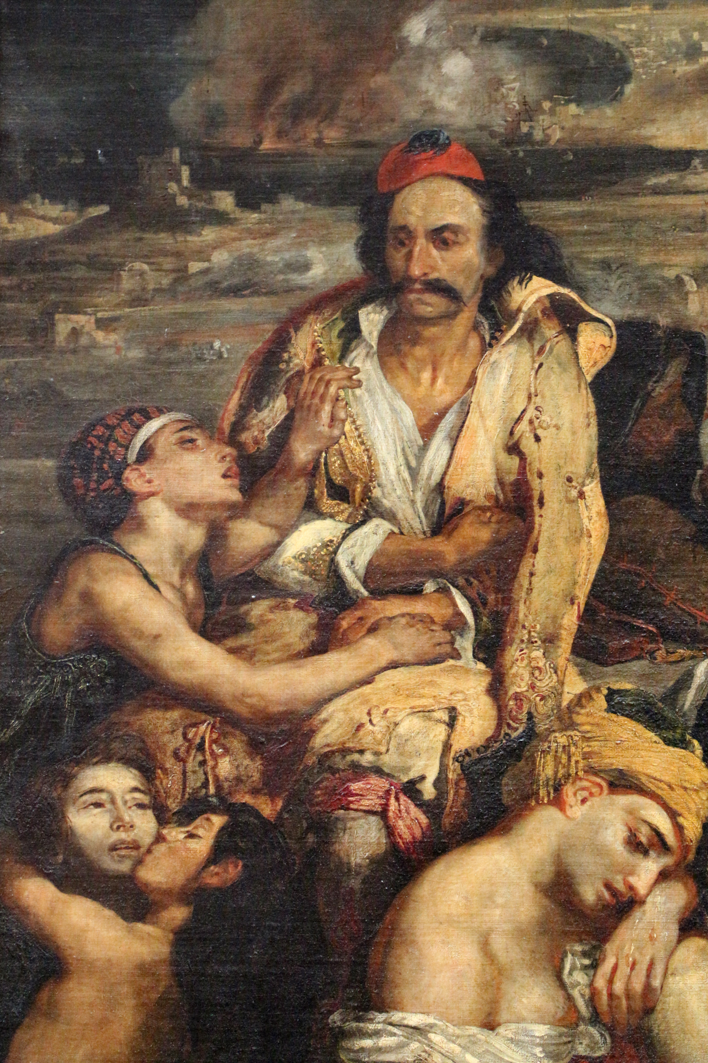 French paintings in the Louvre - Room 77